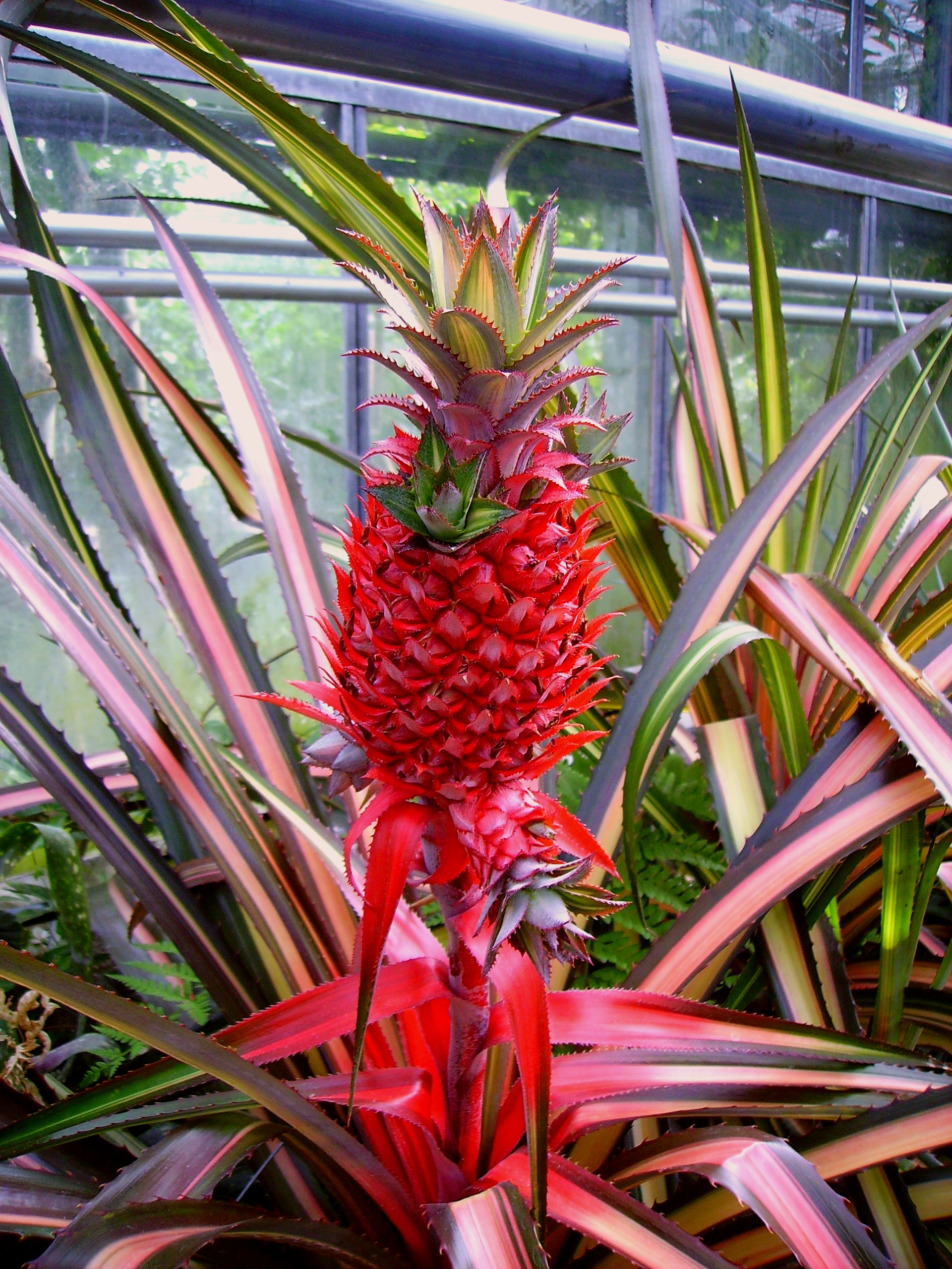 Ananas, I don't know wich variety, growing at Warsaw Botanic Garden in Kabaty